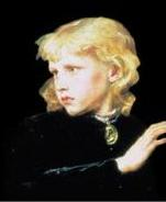 Richard of Shrewsbury